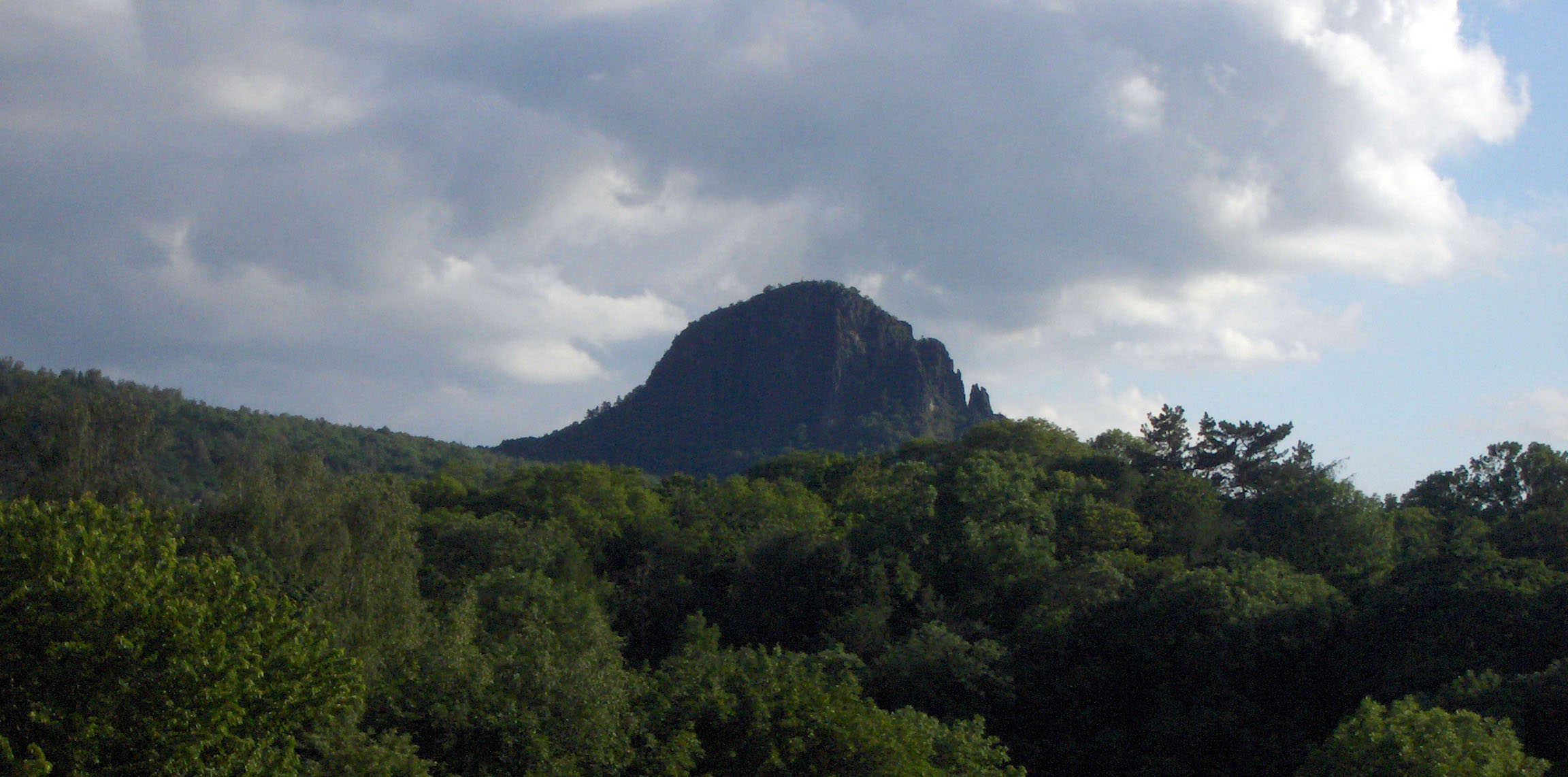 Another view to Bořeň